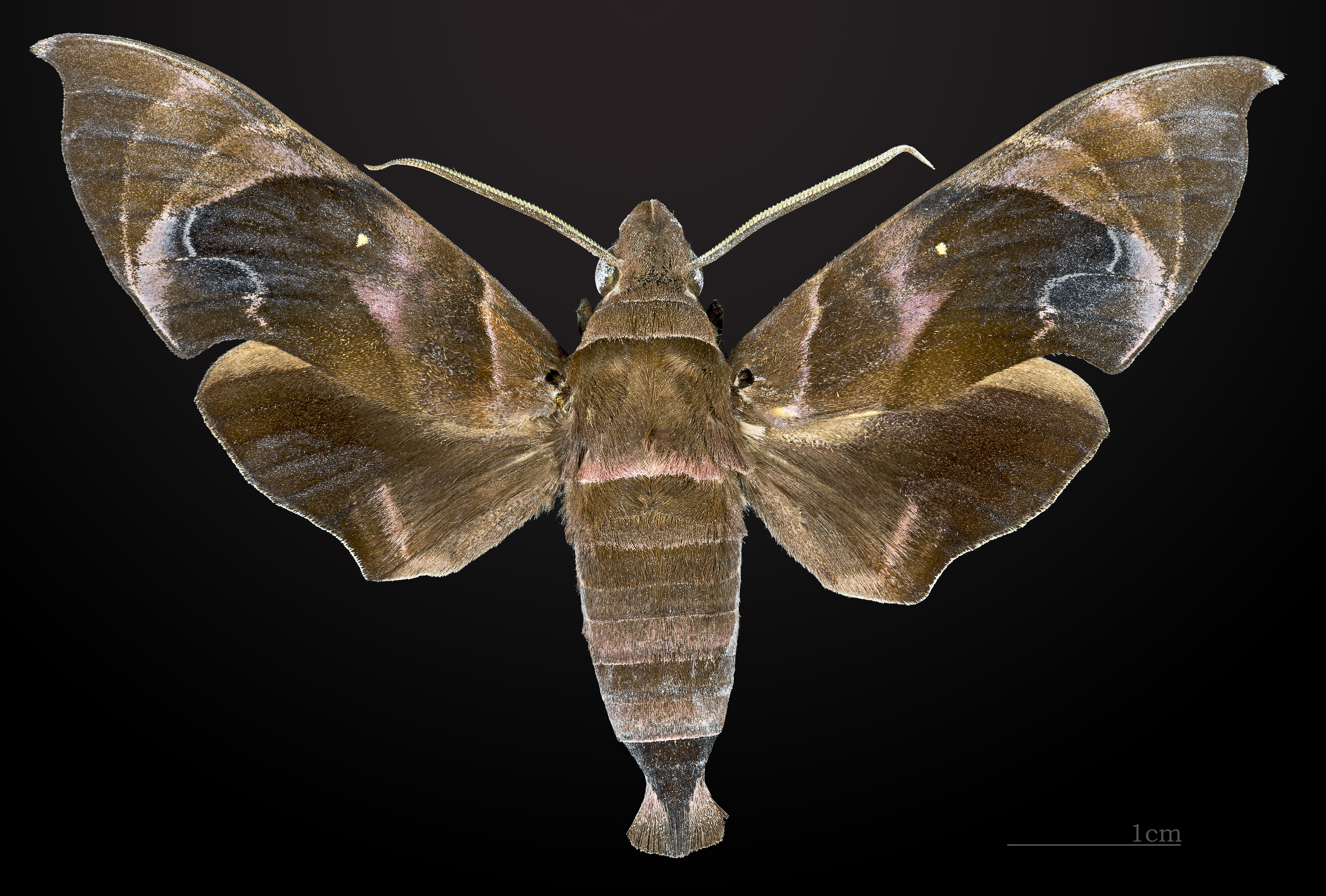 Eurypteryx bhaga - Dorsal side Collection of the Mathematician Laurent Schwartz